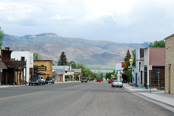 The Main Street of Challis, Idaho, May 2007. Uploaded by Mark Hufstetler, photographer, and released under Creative Commons license (with attribution).